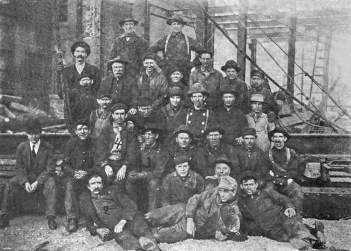 Members of Local 17 of the International Association of Bridge and Structural Iron Workers, AFL, posing for a photograph during construction of the Alfred A. Pope Building (later known as the Halle Building) in Cleveland, Ohio, in the United States in 1908.